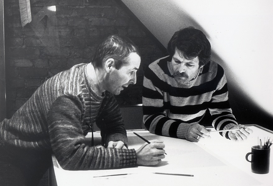 Photograph taken by Gilbert Moll of Jack Chambers and Rudolf Bikkers in the studio's of Editions Canada London, Ontario, Canada